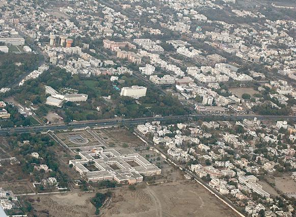 Aerial View of High Court, Hotel Rama International, Hotel Ajanta Ambassador.